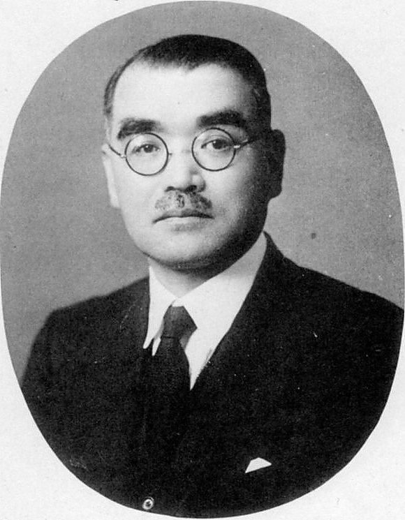 Ishikawa Eijirō.